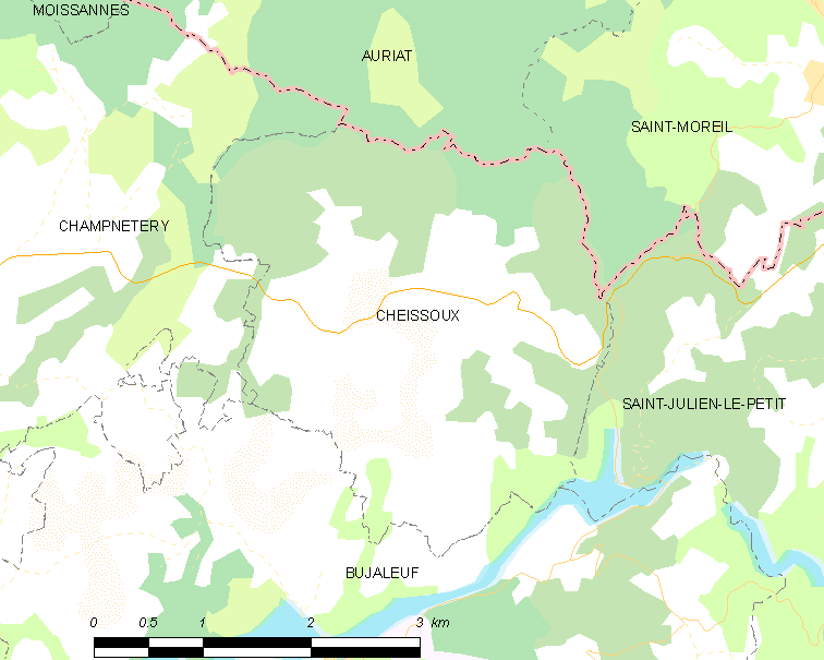 Map of French municipality Cheissoux